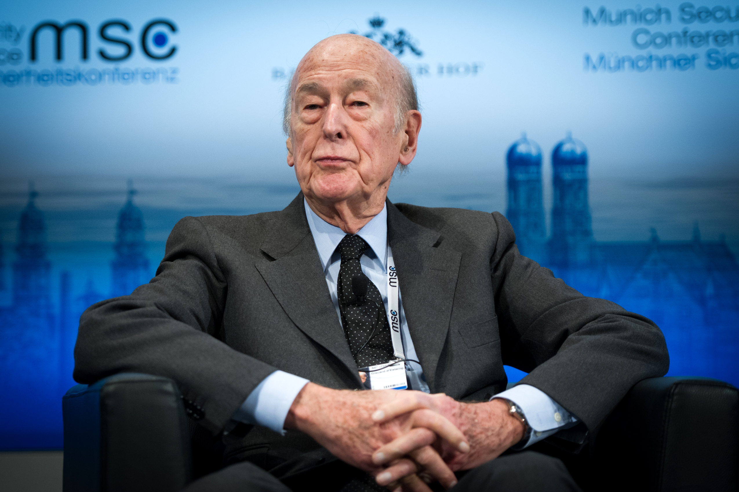 50th Munich Security Conference 2014: Valéry Giscard d'Estaing: Valéry Giscard d'Estaing (Former President of the French Republic)